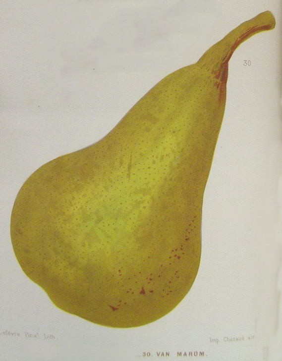 Van Marum, aquarelle from A. Mas.